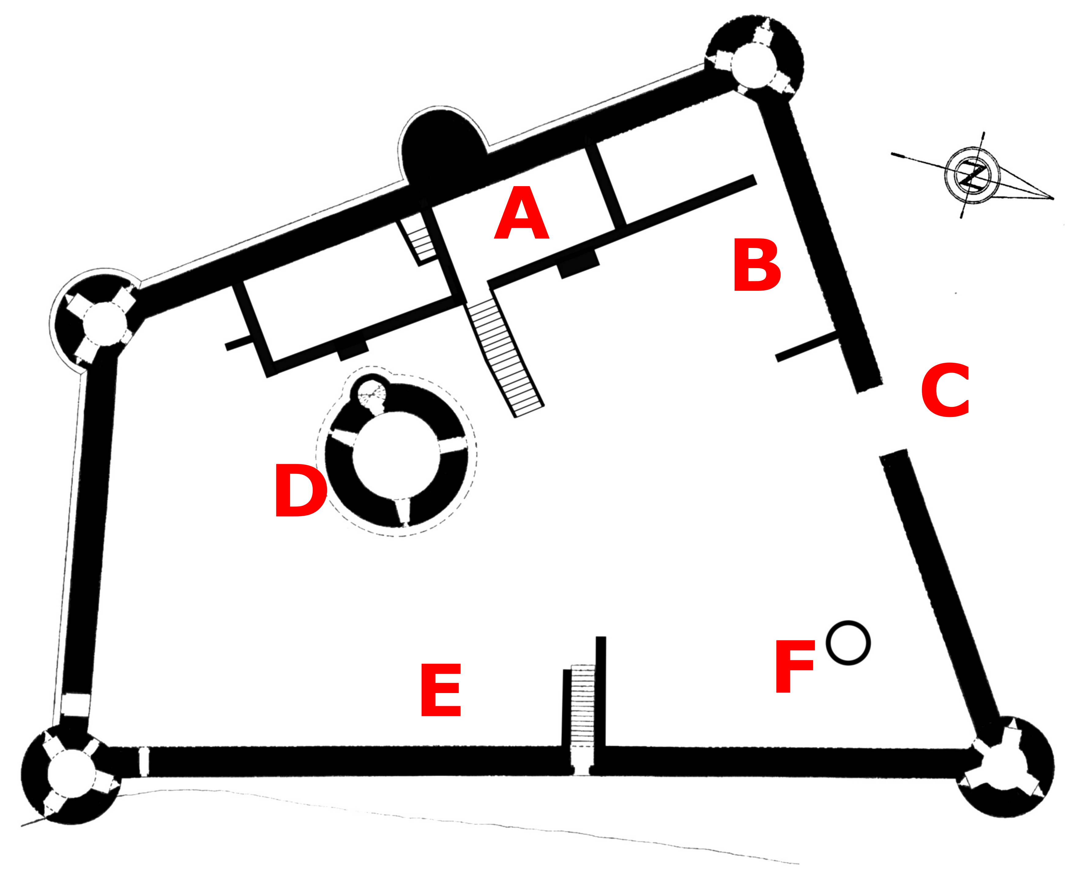 Skenfrith Castle diagram, labelled; additional clean up and details by hchc2009